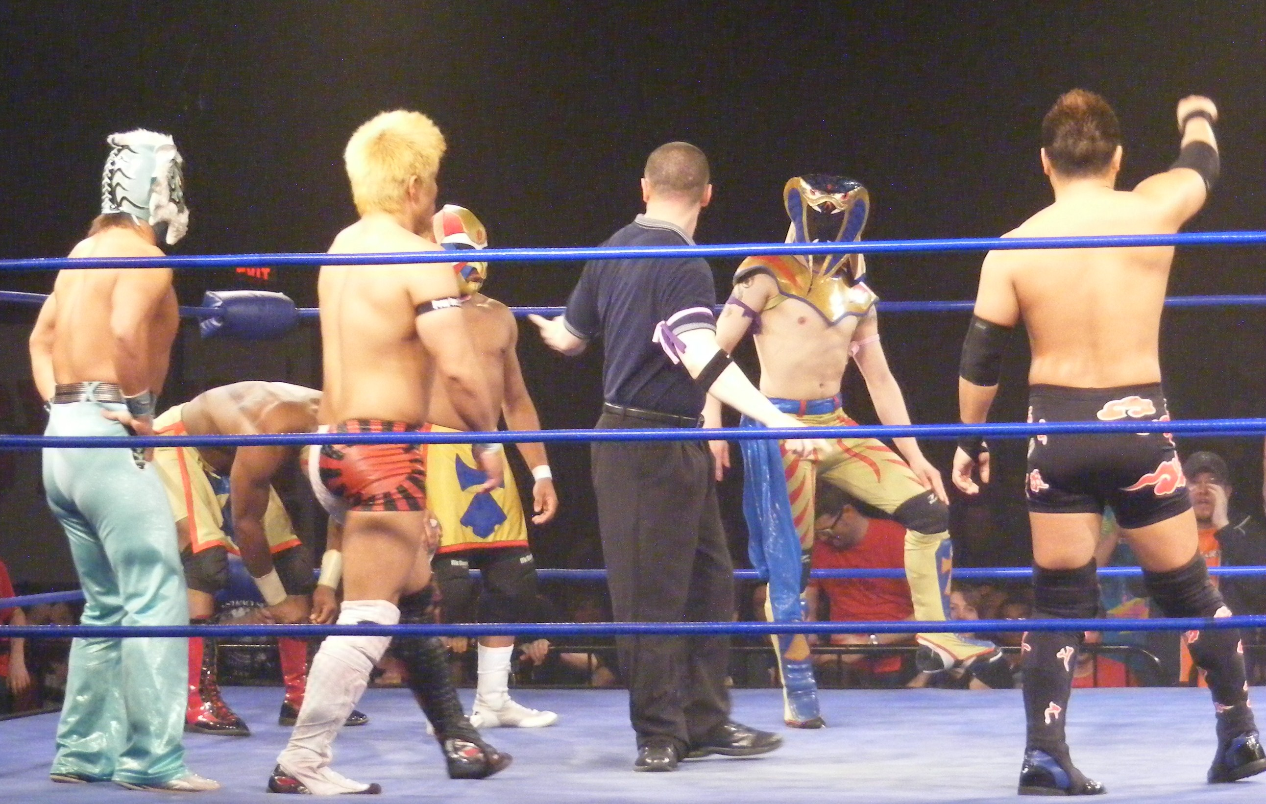 Team Dragon Gate (Super Shisa, Akira Tozawa and KAGETORA) in the foreground faces The Osirian Portal (Amasis, Hieracon and Ophidian) in the background during their quarter-final match of CHIKARA's 2011 King of Trios tournament on April 16, 2012.